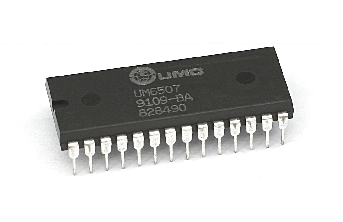 CPU UMC UM6507 (= MOS 6507)